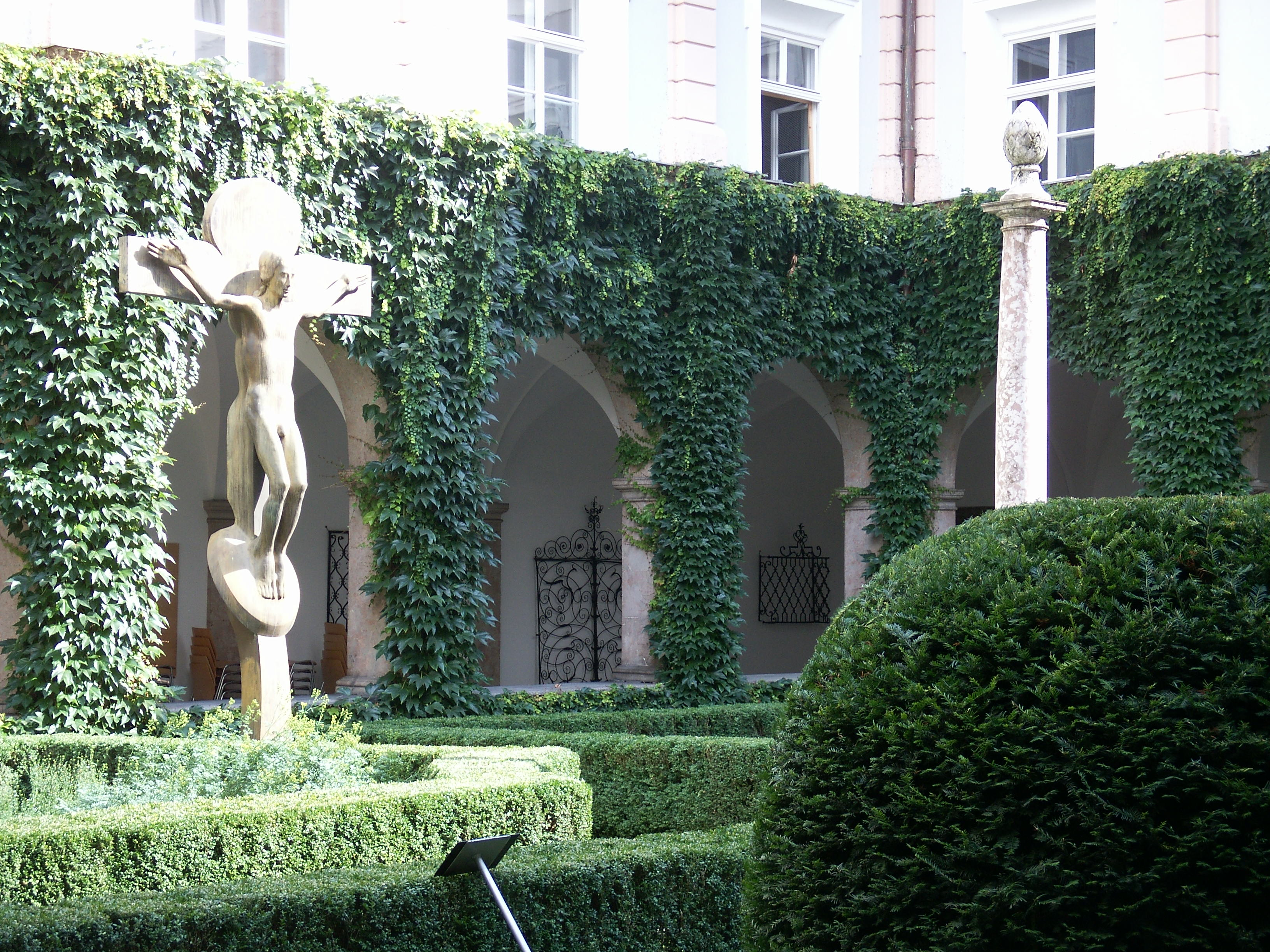 Cloister of former Innsbruck Franciscan monastery, now Tiroler Volkskunstmuseum (Tyrolean Regional Heritage Museum) and the entrance to the museum. The monastery was established to care for Hofkirche and the cenotaph of Maximilian I, Holy Roman Emperor.